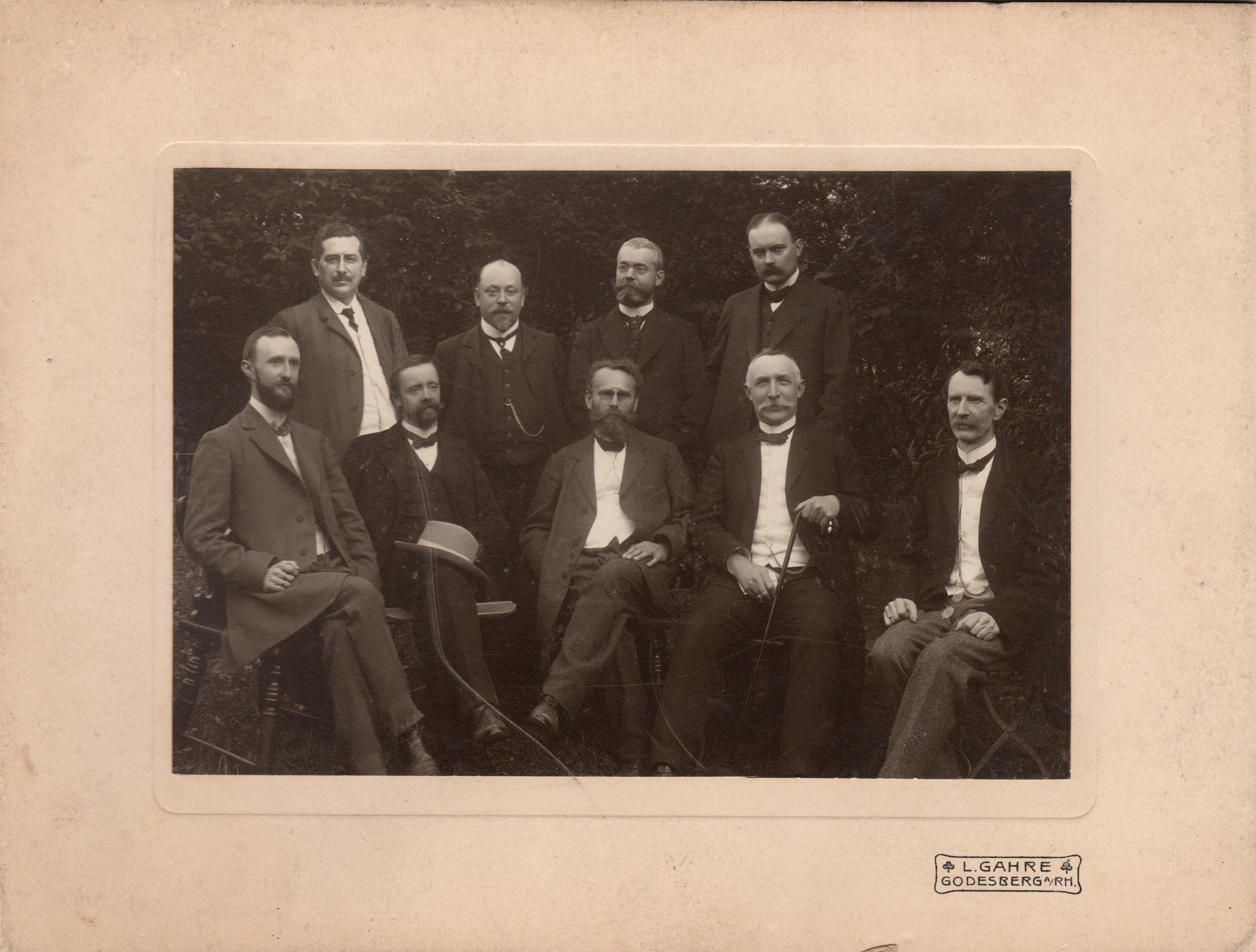 Members of the Keplerbund 1913. Eberhard Dennert center